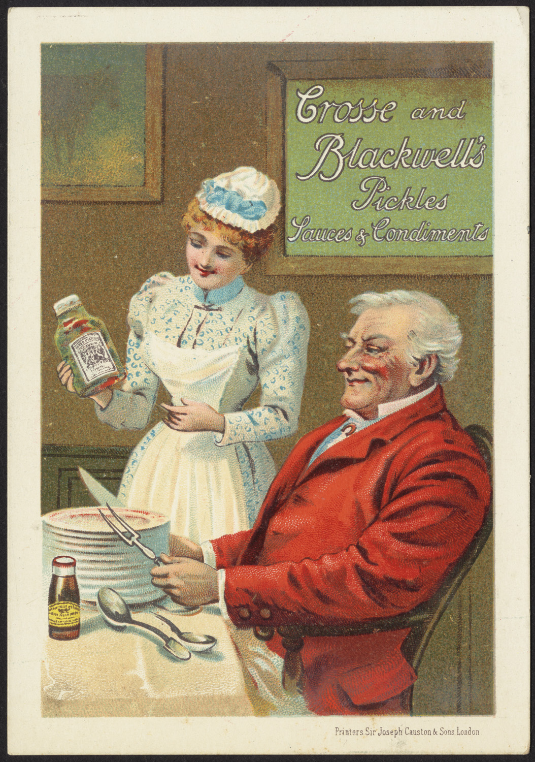 Following description is copied verbatim from the source page (Flickr). File name 10_03_000052a Binder label Food Title Crosse & Blackwell's pickles, sauces & condiments [front] Created/Published London : Printers Sir Joseph Causton & Sons Date issued 1870 - 1900 (approximate) Physical description 1 print : chromolithograph ; 13 x 9 cm. Genre Advertising cards Subject Adults; Condiments Notes Title from item. Statement of responsibility Crosse & Blackwell, Limited Collection 19th Century American Trade Cards Location Boston Public Library, Print Department Rights No known restrictions.